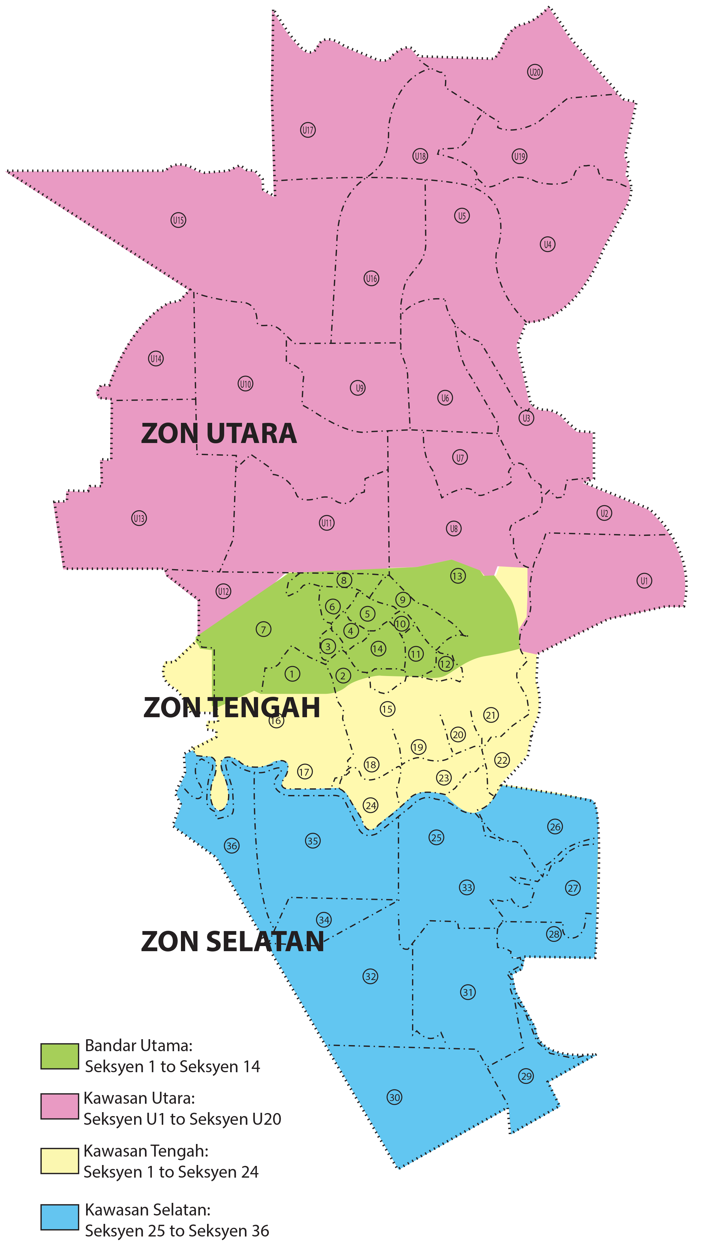 Seksyen-seksyen shah alam